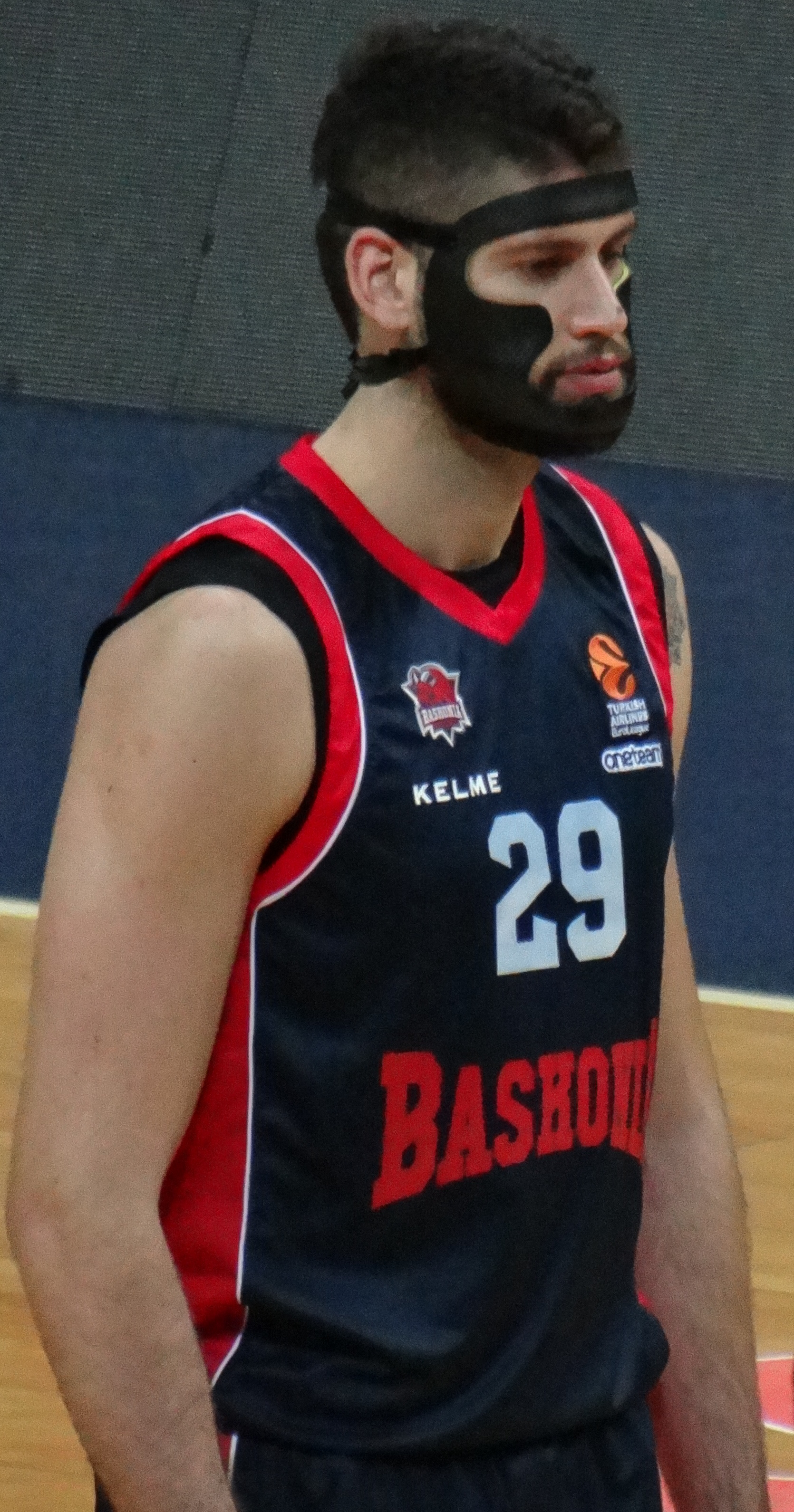 Patricio Garino 29 Saski Baskonia 20180105